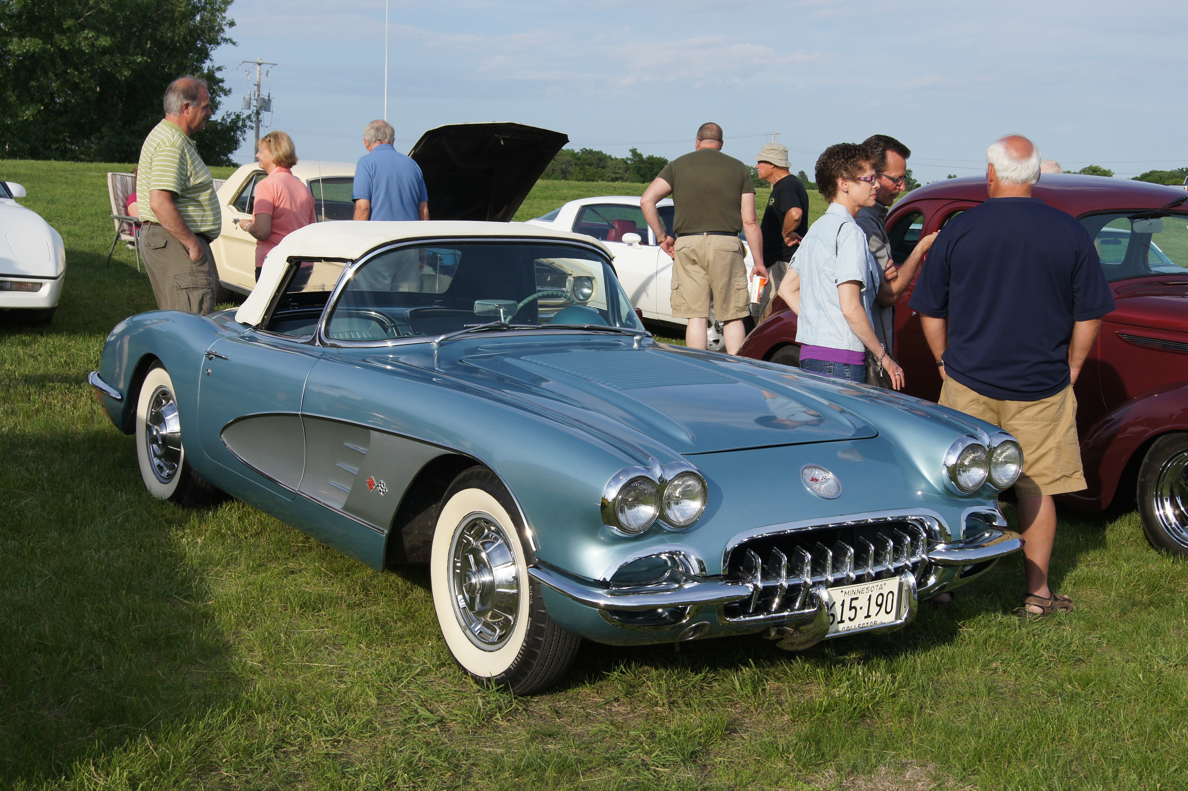 A&W Country Stop Cruise Night June 19, 2013 More Car Pictures